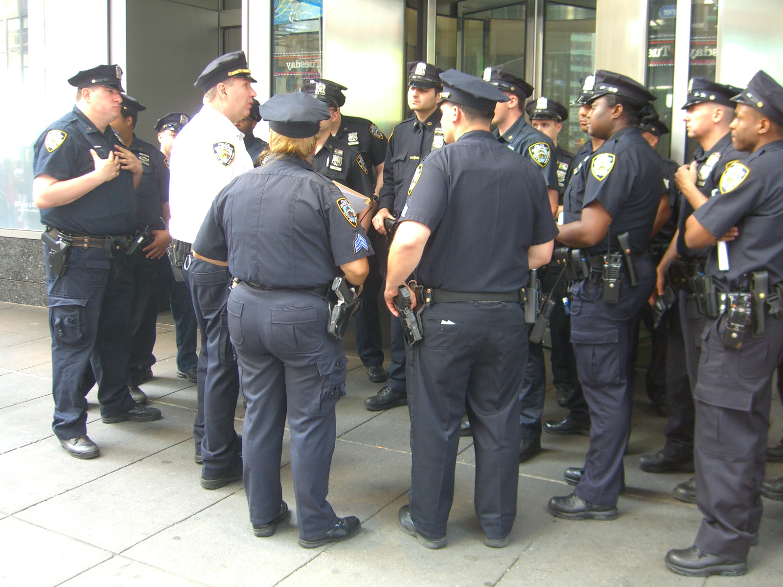 New York City Police officers being debriefed by their lieutenant (in the white shirt) in Times Square, May 29, 2010. This photo was created by Luigi Novi. It is not in the public domain, and use of this file outside of the licensing terms is a copyright violation.